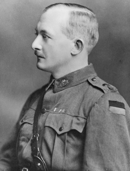 Profile portrait of Lieutenant Colonel (Lt Col) Maurice Wilder-Neligan CMG DSO and Bar DCM C de G, Commanding Officer of the 10th Battalion. Lt Col Wilder-Neligan returned to Australia on 16 July 1919.